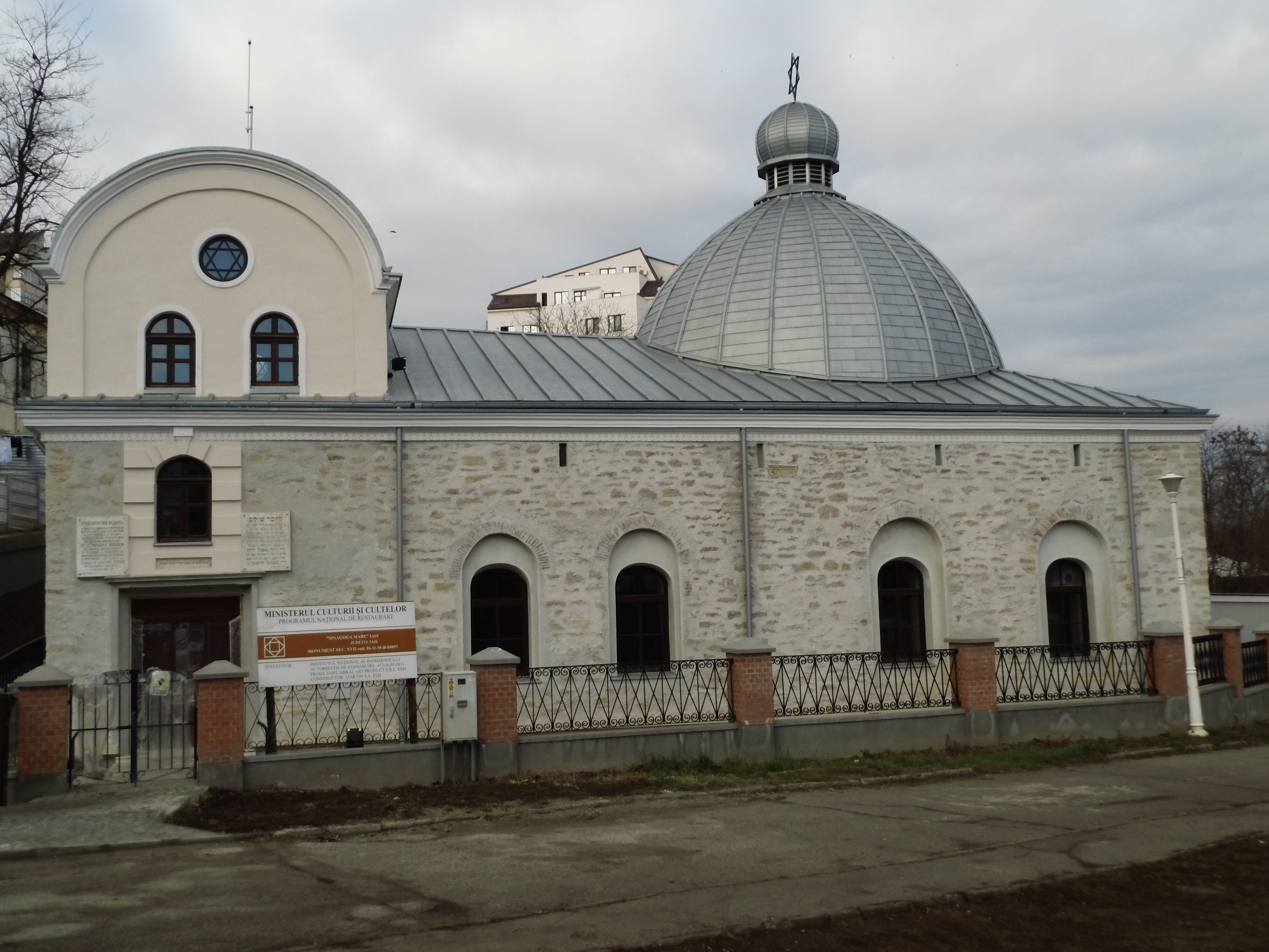 Sinagoga Mare